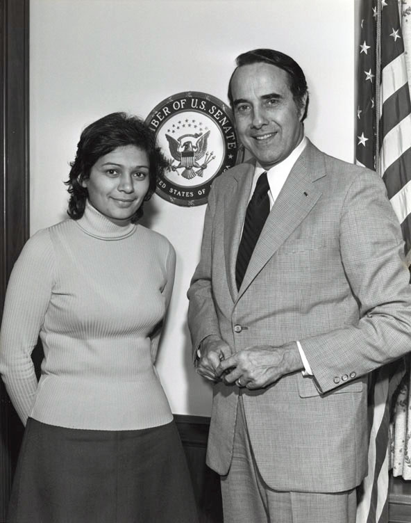 Photographer: unknown Date: undated Medium: black and white photograph Repository: American Jewish Historical Society Parent Collection: National Conference on Soviet Jewry (I-181A) Link to Digital Object: Call number: aa-i181a-b362-f001-023 The photograph was originally found in Box 362, Folder 1 of the Records of National Conference on Soviet Jewry (I-181A). See more information about this image and the collection by viewing the finding aid: Guide to the Records of National Conference on Soviet Jewry. Rights Information: No known copyright restrictions; may be subject to third party rights. For more copyright information, click here. To inquire about rights and permissions, or if you have a question regarding the collection to which the image belongs, please contact the Reference Department of the American Jewish Historical Society by email. Digital images created by the Gruss Lipper Digital Laboratory at the Center for Jewish History. Digitization of select American Soviet Jewry Movement material has been made possible through a generous grant from the National Historical Publications and Records Commission (NHPRC).